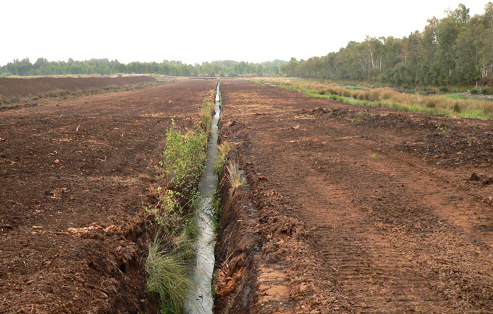 Totes Moor. Moorland, bog